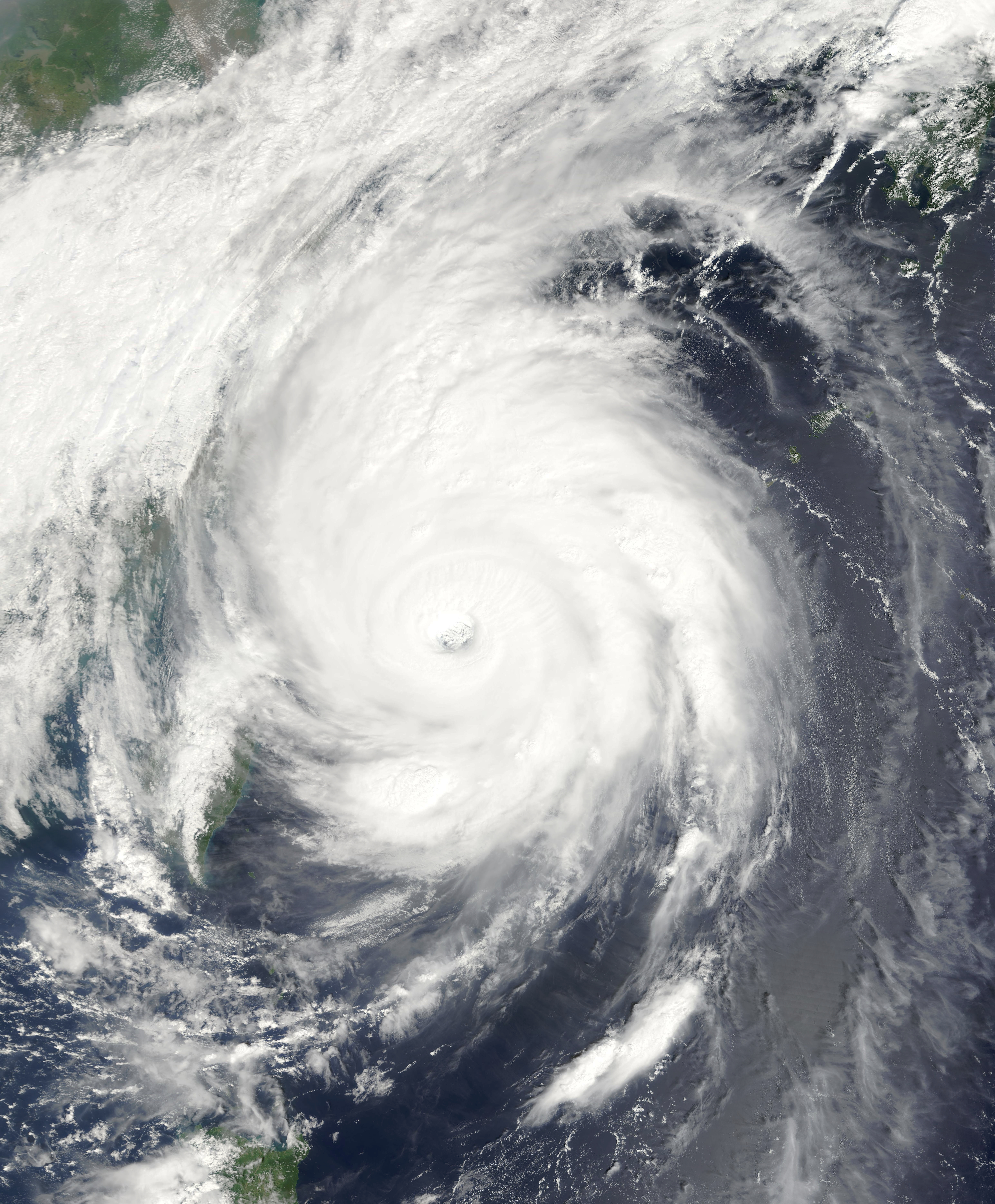 MODIS (Vis) image from Terra of Typhoon Shanshan with 120 kt (1-minute average) winds. September 16, 0212 UTC.